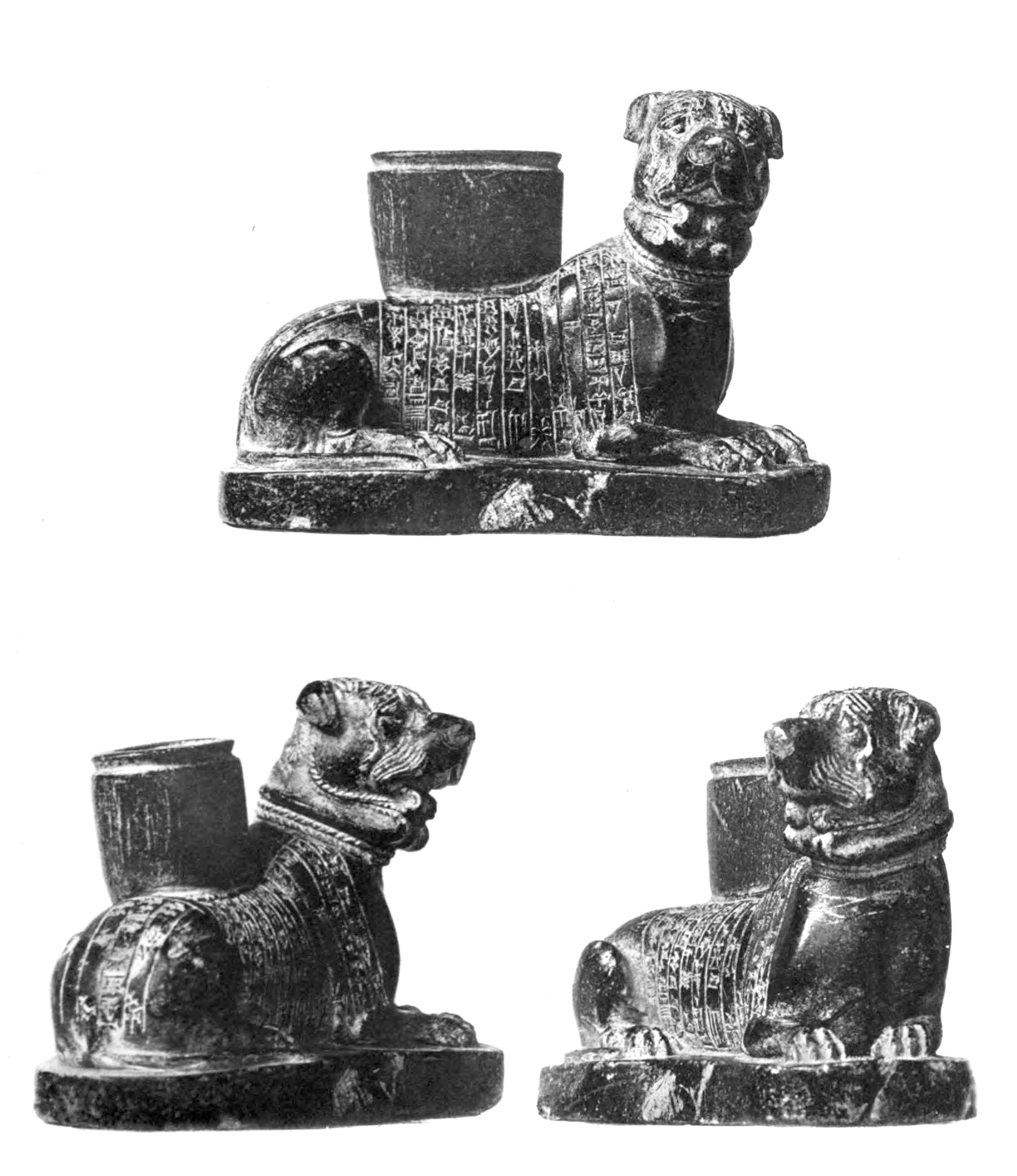 Dog of Sumuel